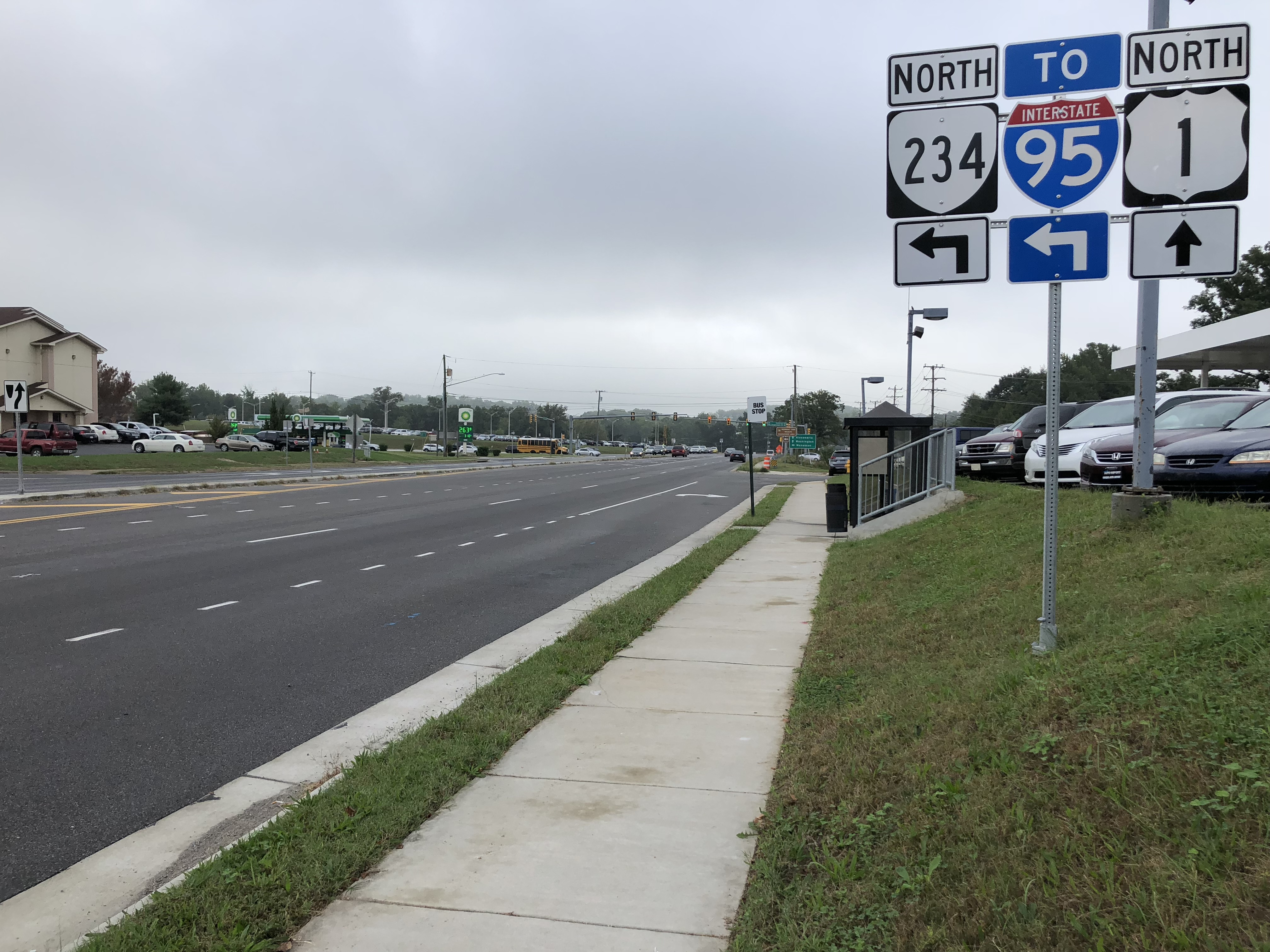 View north along U.S. Route 1 (Jefferson Davis Highway) just south of Virginia State Route 234 (Dumfries Road) in Dumfries, Prince William County, Virginia